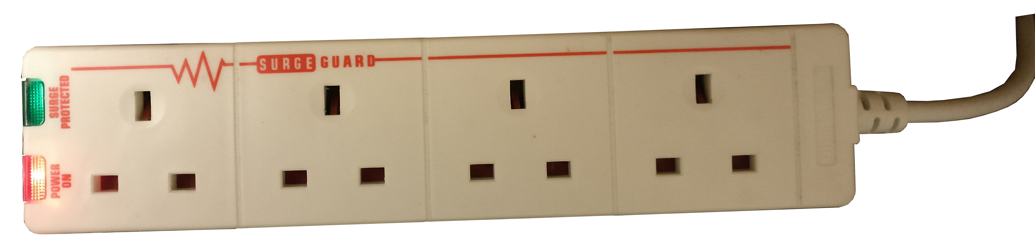 SurgeGuard power strip with UK inputs. Surge and power indicators.